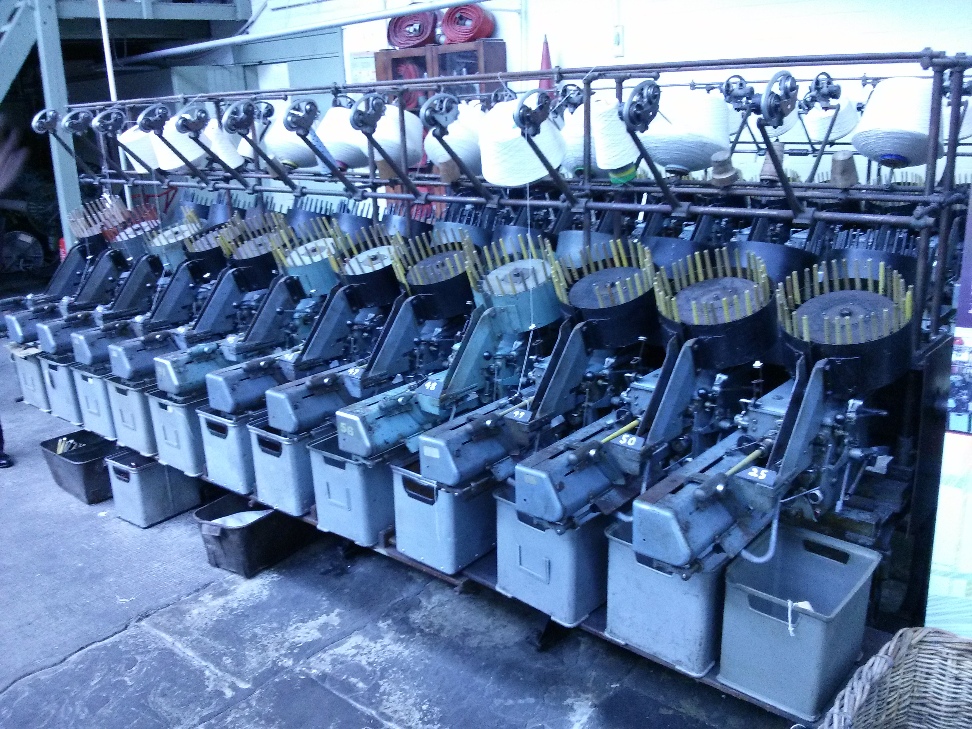 pern winding burnley